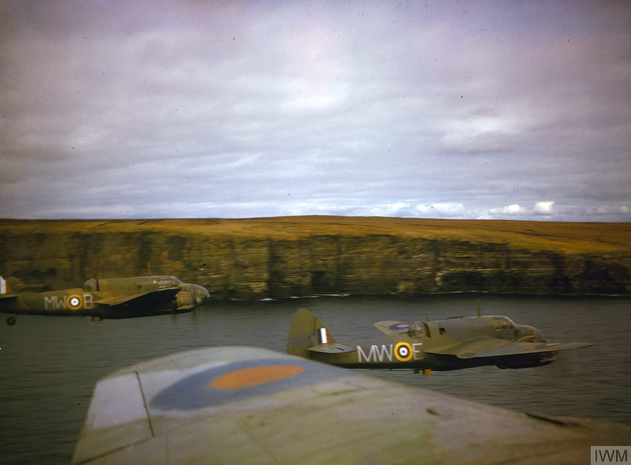 Bristol Beauforts N1173/`MW-E' and AW242/`MW-B' of 217 Squadron, Royal Air Force, making a low pass along the Cornish coastline near St. Eval (UK).